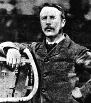 Photo of Henry Albert Fleuss